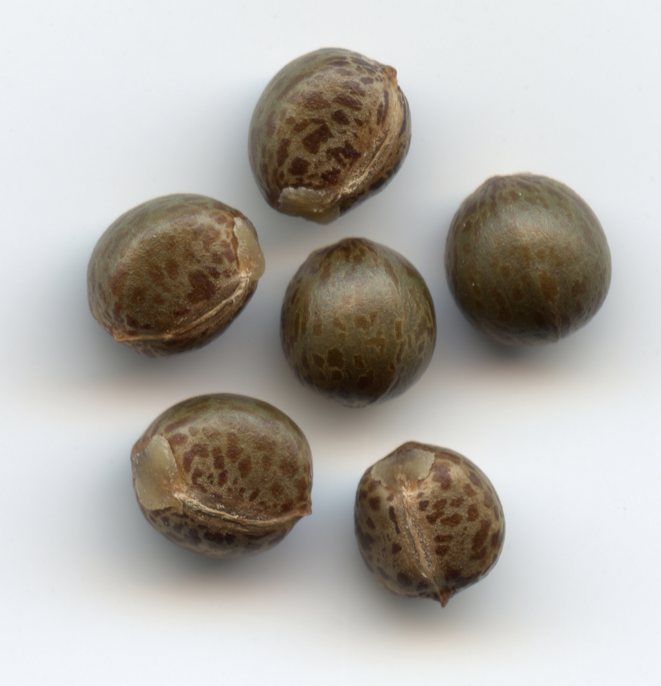 Codiaeum variegatum, seeds Place: Poland, Mielec